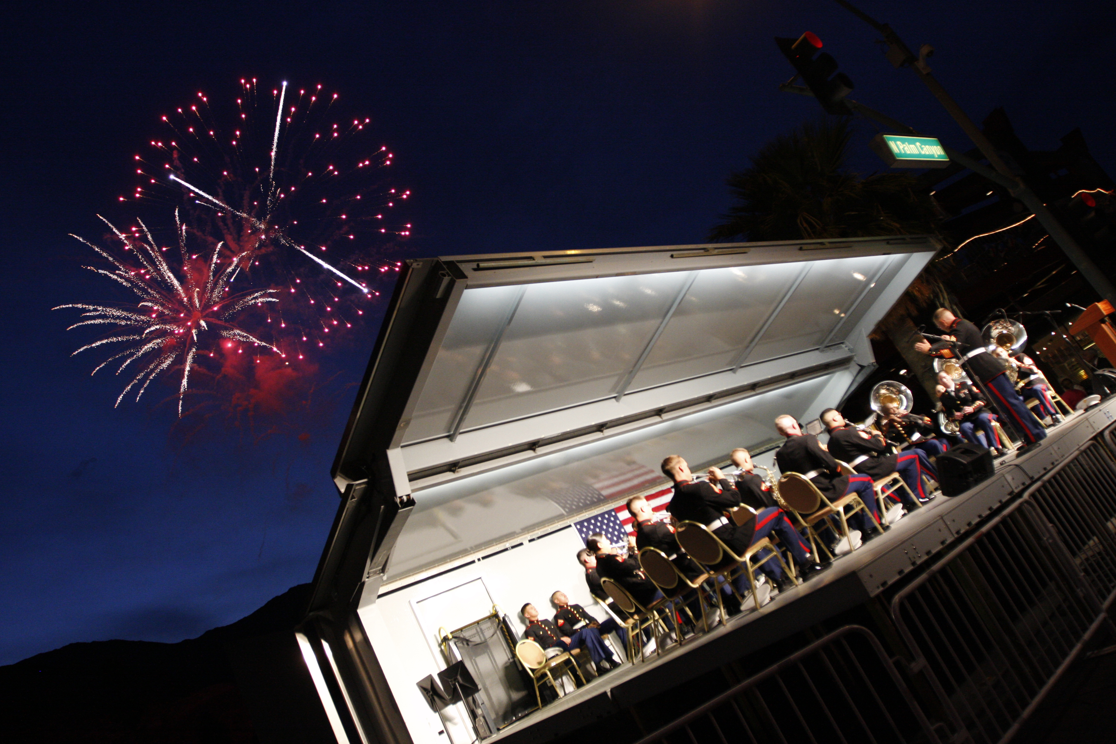 PALM SPRINGS, Calif. - The Combat Center's band plays the Marines Hymn Wednesday after the 13th annual Veterans Day Parade in downtown Palm Springs, Calif. Marines from the Combat Center supported the event by participating in the parade, as well as having static displays with tactical vehicles before, and the band after the parade.